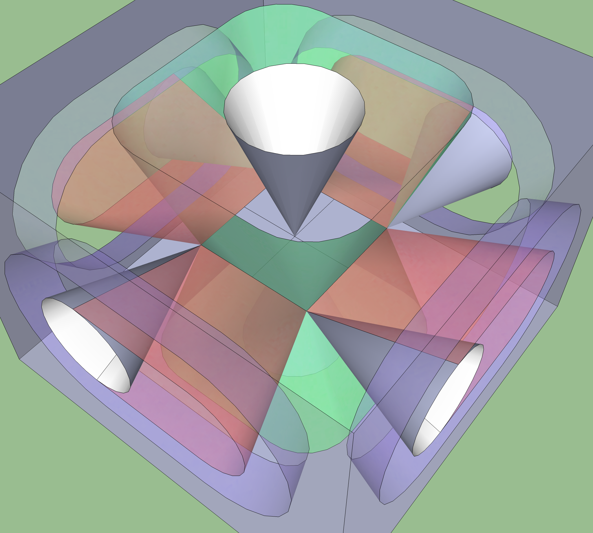 The light emission cones of a real light emitting diode (LED) wafer are far more complex than a single point source light emission. Typically the light emission zone is a 2D plane between the wafers. Across this 2D plane, there is effectively a separate emission cone for every atom across the plane. Drawing this is impossible, so this is a simplified diagram showing the extents of the emission cones. The larger cones are clipped to show the interior features and reduce image complexity.